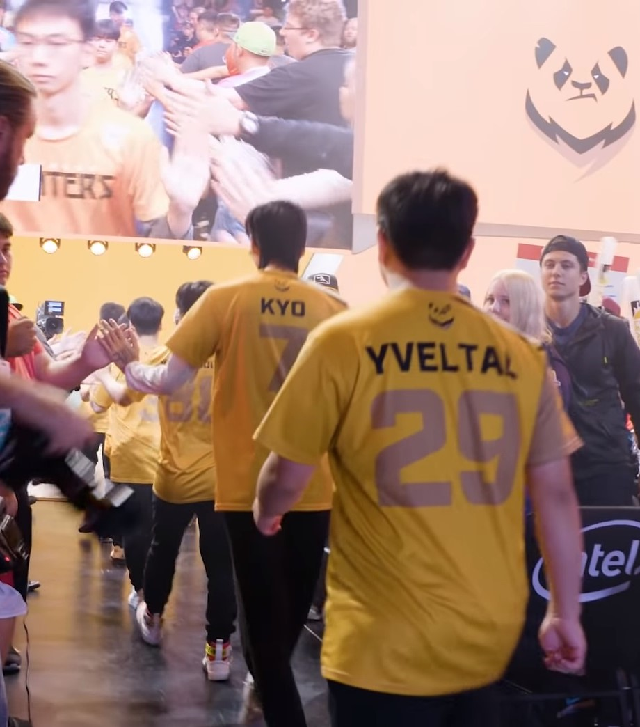 Chengdu Hunters walk on 2019 Stage 3